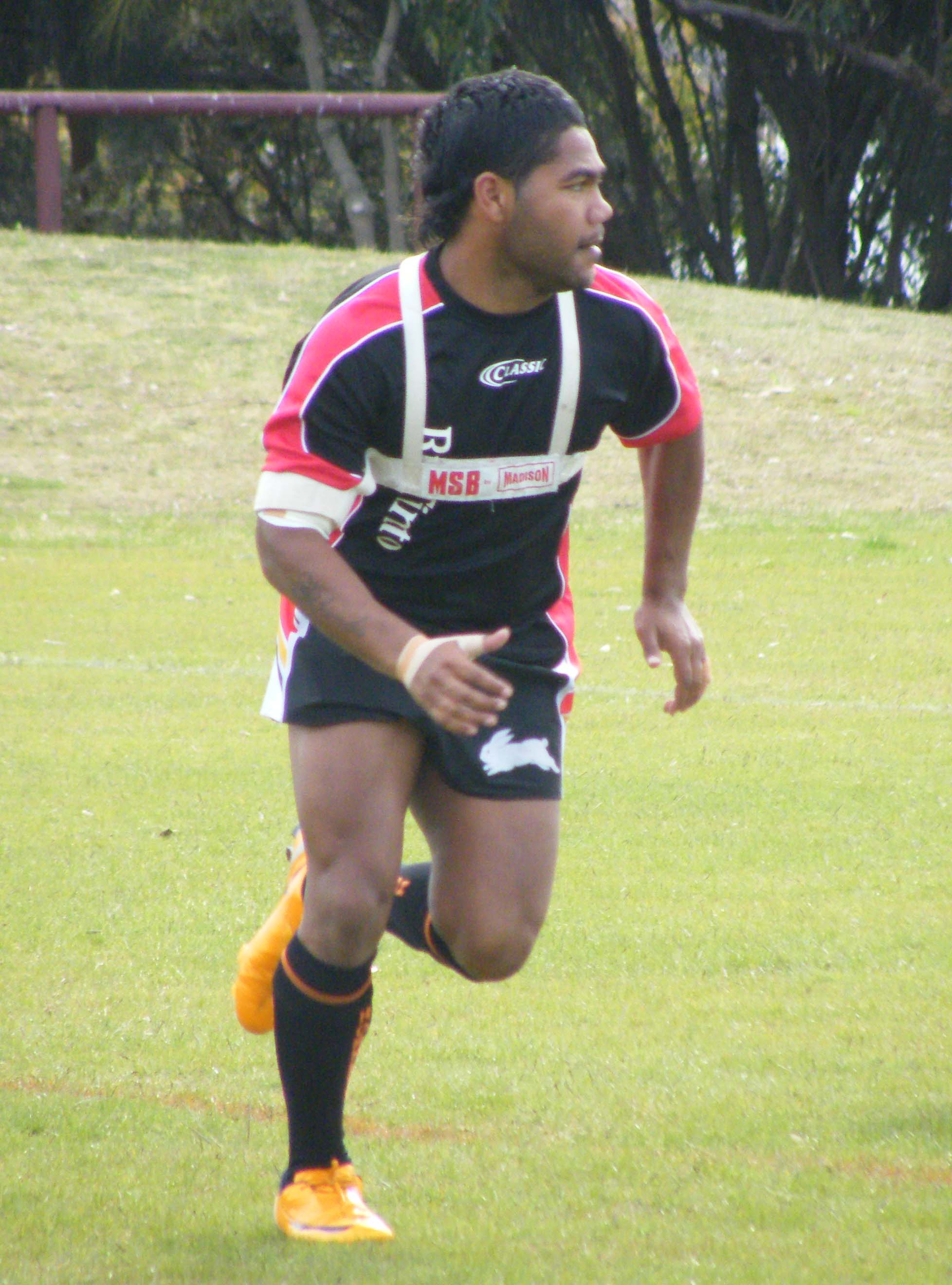 Training Session - Aboriginal Dreamtime Team - RLWC 2008